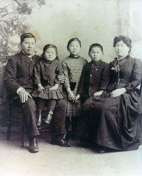 Joseph, Emily, Mamie, Frank & Mary Tape circa 1884–85. see Tape v. Hurley